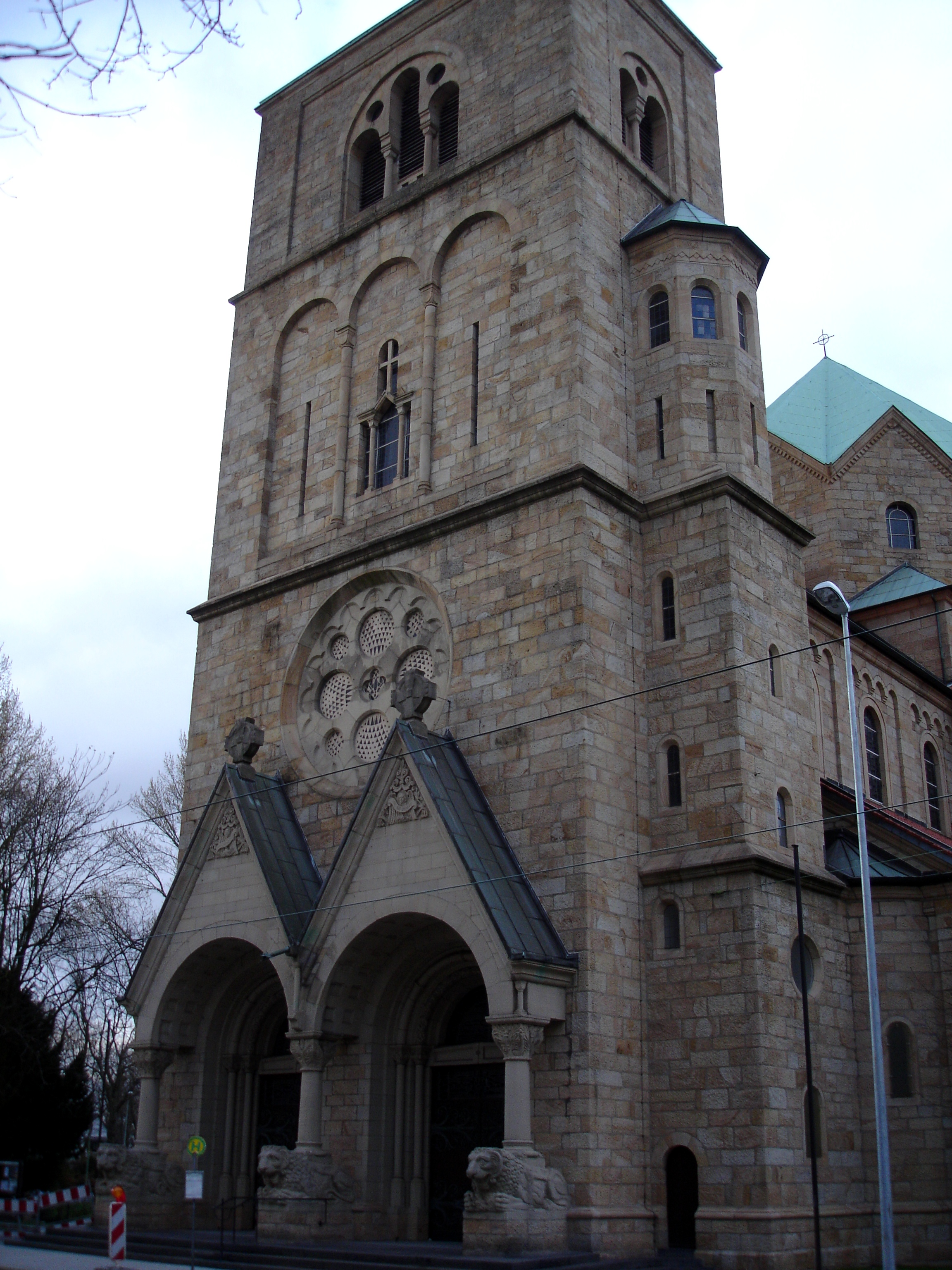 Catholic St. Joseph church in Wanne-Eickel. This church is called "Löwenkirche" (lion church) because of the lions in front of the main doors.